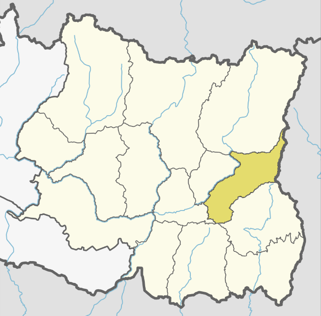 Panchthar district